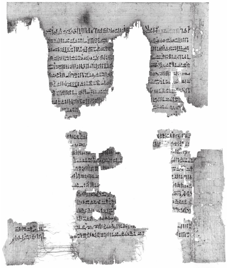 The Astartepapyrus (also Papyrus Amherst IX) and above the papyrus Bibliothèque nationale 202 which are part of the same papyrus as Collombert and Coulon discovered in 2000.